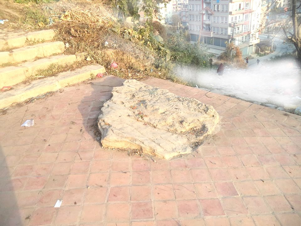 Chhyakha Lohan (Nepal Bhasa: छ्याखः लोहं) is a rock located in Kirtipur, a Newar town. Commemorating the torture, genocide, slaughter, rape and cutting of nose of citizens, people spit on the rock. The rock is symbolism of Prithvi Narayan Shah because he slipped down the rock during his first invasion in Nepal. नेपाल भाषा: छ्याकः लोहं धयागु किपुलिइ दूगु छता लोहं खः। थ्व लोहँतय् पृथ्वी नारायण शाहया अत्याचार लुमङ्काः थुकलं बीगु चलन दु।